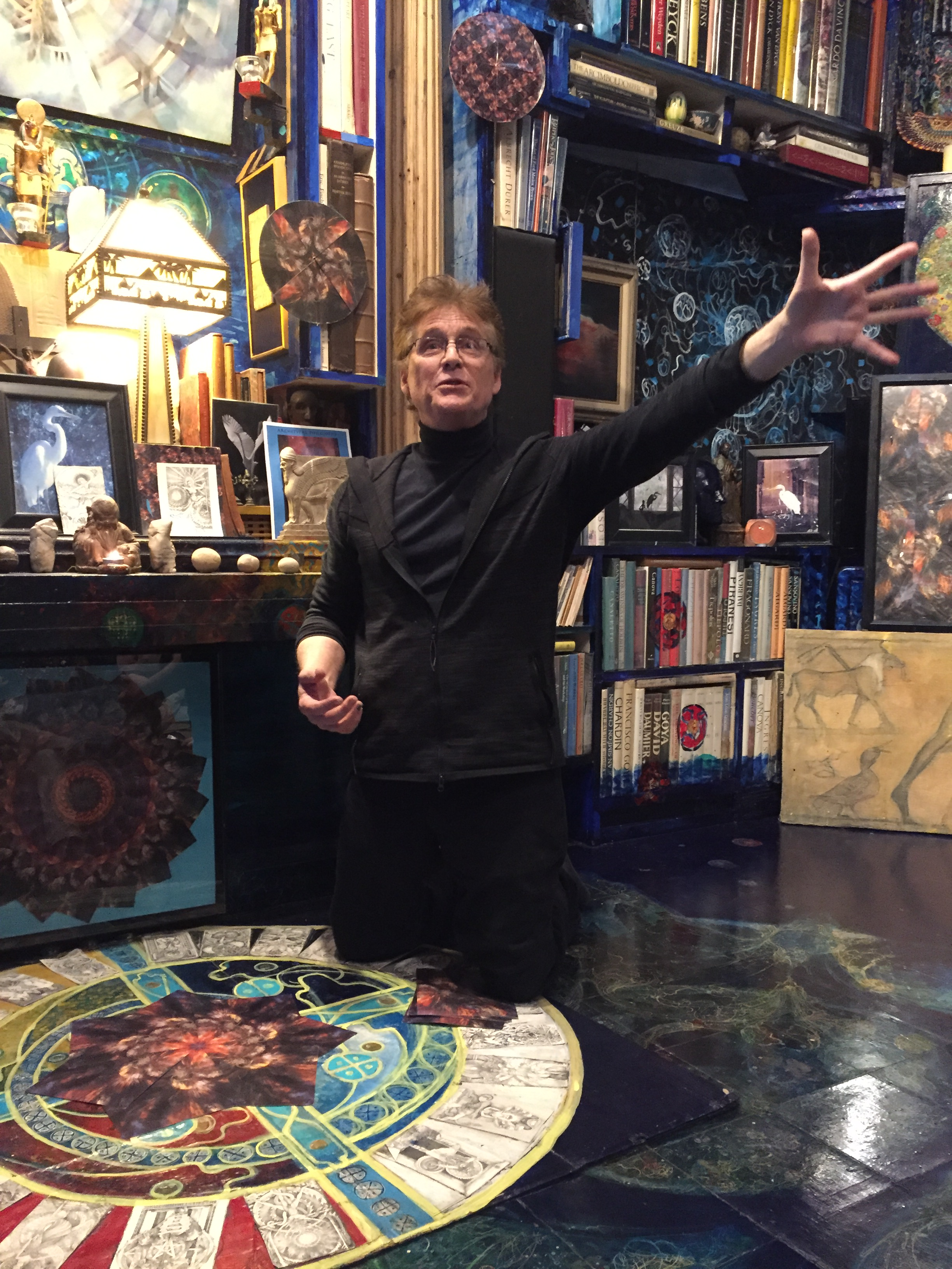 Visionary painter Leigh McCloskey giving a tour of his art installation The Hieroglyph of the Human Soul